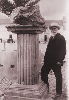 Henry Augustus Ward (1834-1906) with meteorite, look also at - Wardite